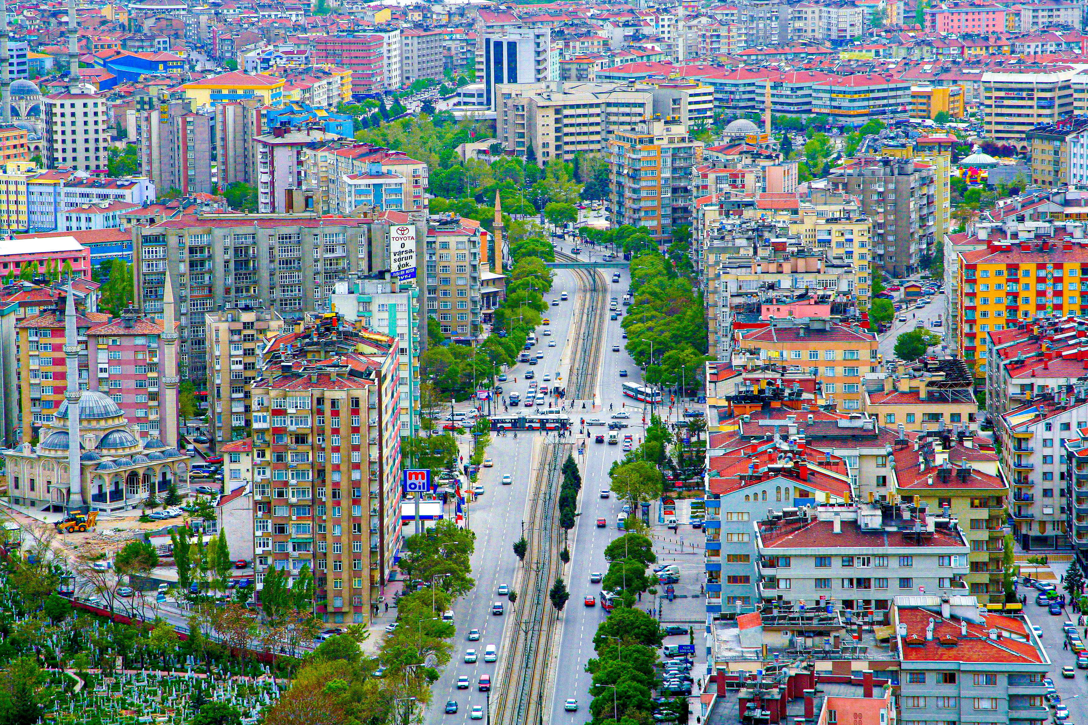 A view of Avenue Nalçacı in Konya